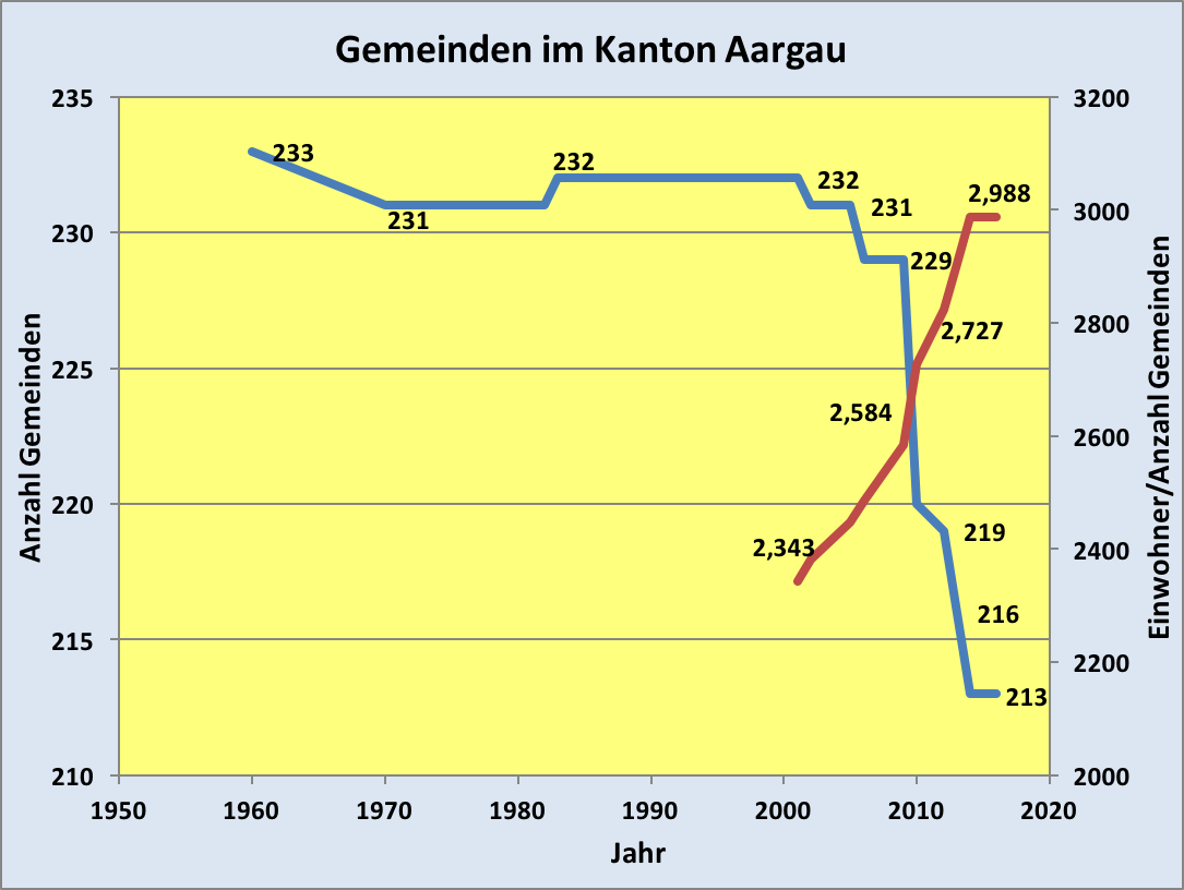 The development of the municipalities and their average size in terms of inhabitants in the Canton of Aargau from 1960 to 2016.